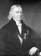 Johan Fredrik Aminoffin muotokuva.